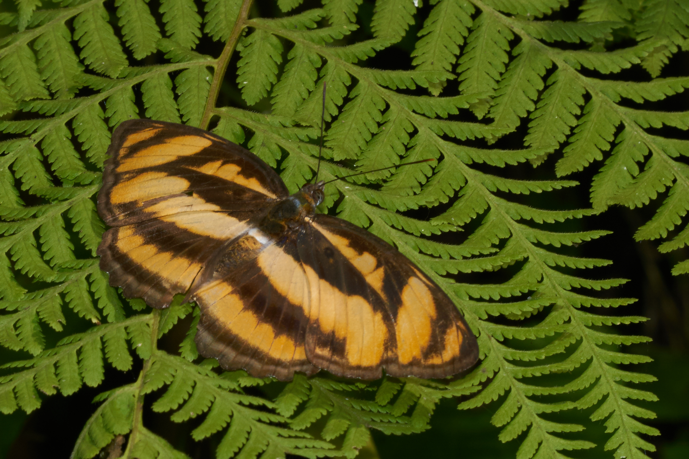 Athyma nefte inara, Colour Sergeant, is a species of brush-footed butterfly found in tropical South and Southeast Asia. (ID: Butterflies of India)